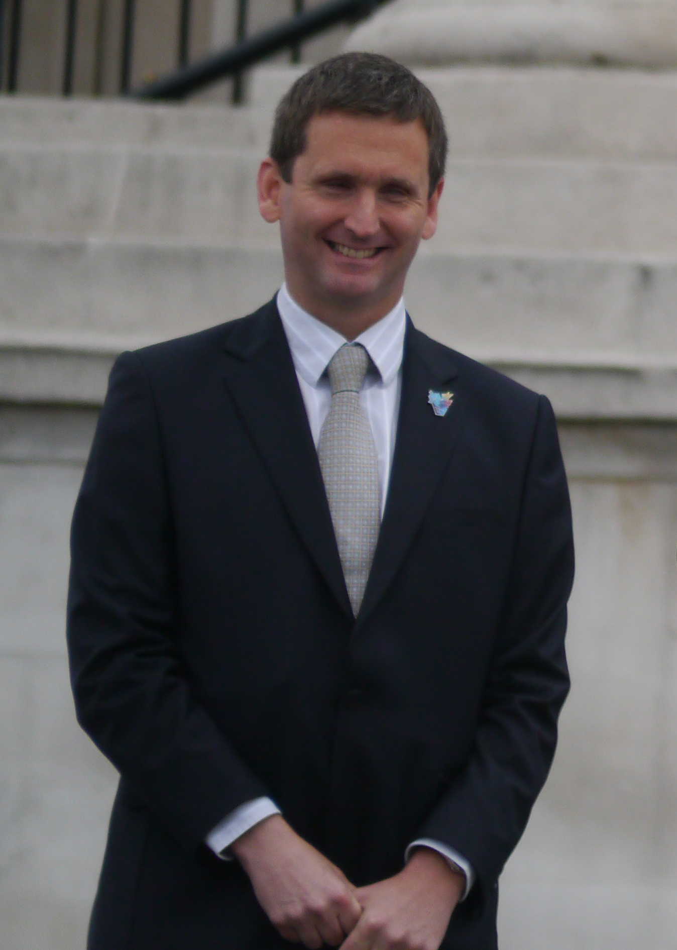 This morning I went to see the ceremonial cauldron being lit in Trafalgar Square to launch the Paralympic torch relay. Chris Holmes is Director of Paralympic Integration for the 2012 Olympics and Paralympics and won a total of nine golds, five silvers, and one bronze medal at the Paralympic Games between 1988 and 2000. Boris Johnson is, er, Boris.